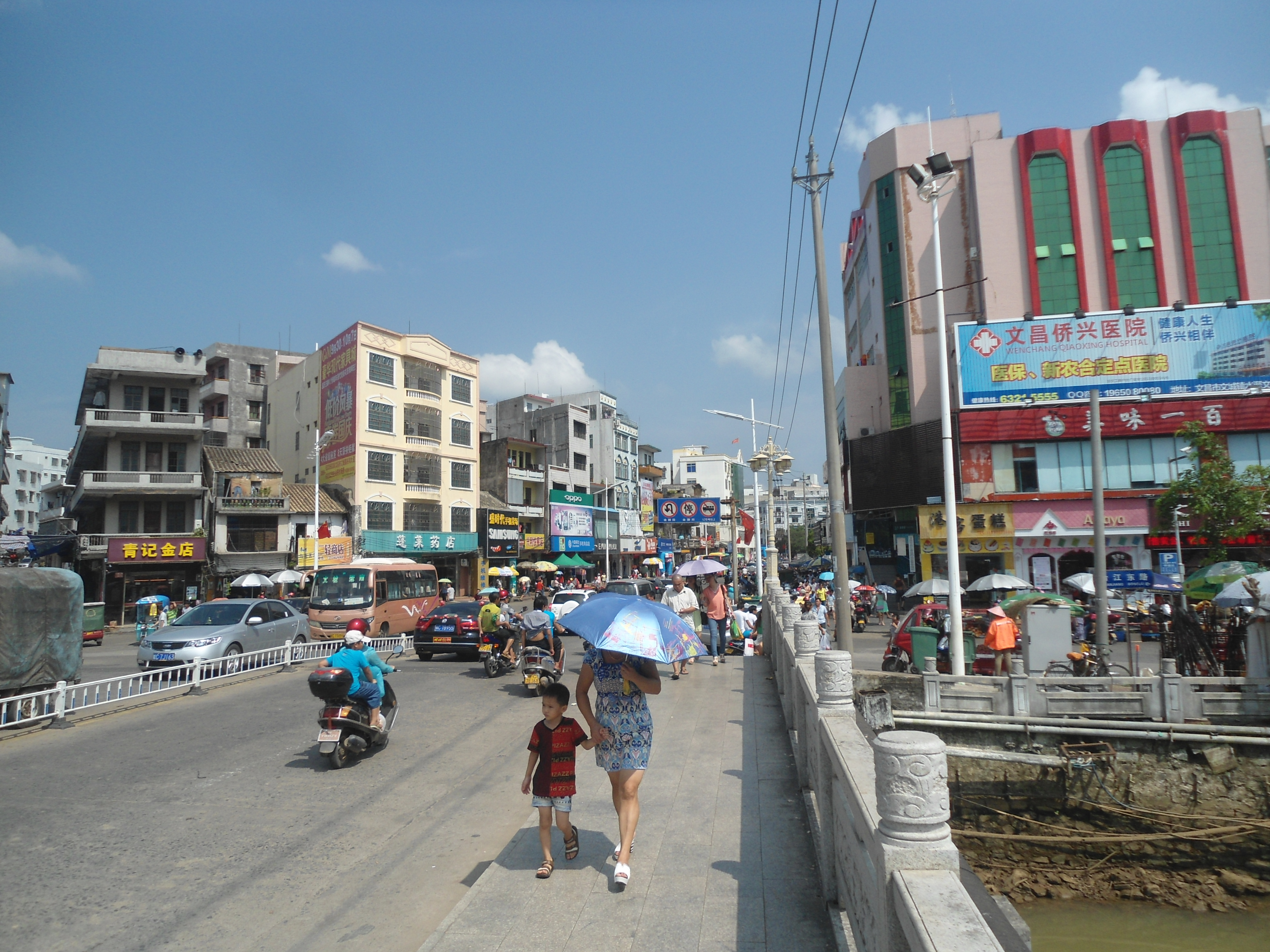 Wenchang City view, Hainan, China